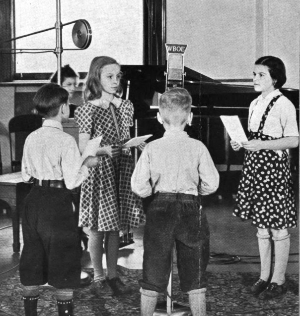 Radio station WBOE, licensed to the Cleveland, Ohio Board of Education, began broadcasting educational programs in the fall of 1938.